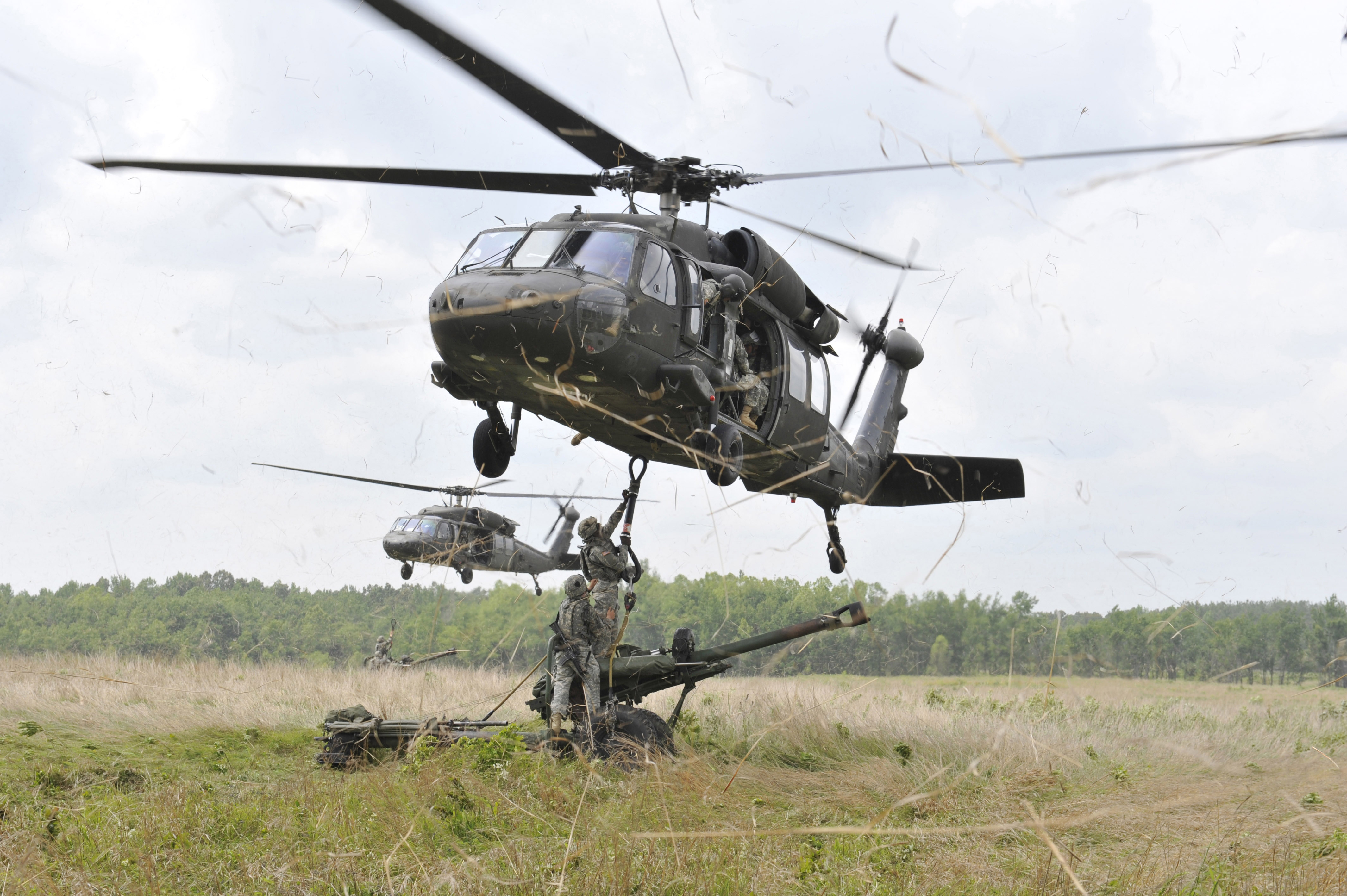 U.S. Army soldiers from 1st Battalion, 320th Field Artillery Regiment, 2nd Brigade Combat Team, 101st Airborne Division connect lifting slings between M-119A2 lightweight towed howitzers and UH-60 Black Hawk helicopters from 5th Battalion, 101st Combat Aviation Brigade, 101st Airborne Division during training exercises at Fort Campbell, Ky., on June 9, 2009. The process is complicated by flying debris kicked up by rotor wash.